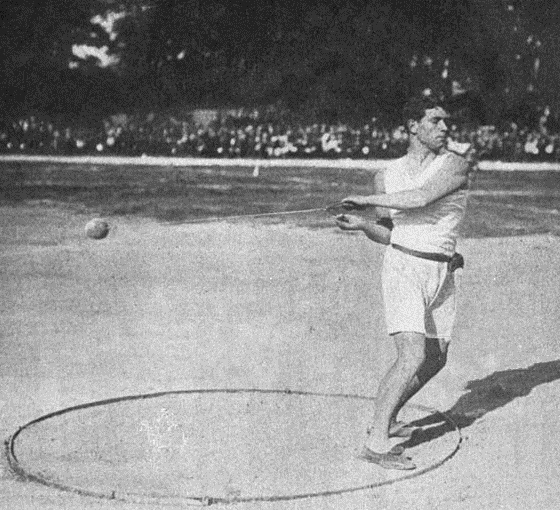 Arvid Aberg throwing the hammer during the 1912 Olympic Games in Stockholm, Sweden.